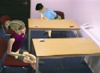 Russell Freeman, Mixed Reality Fear of Public Speaking Demonstration, archived here)